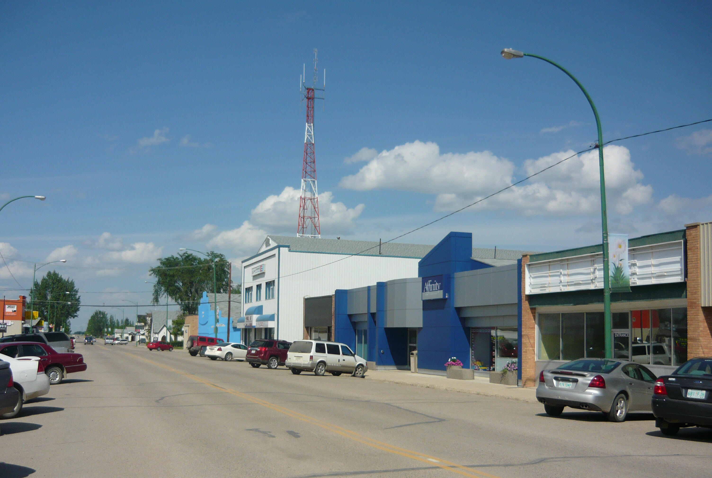 Business district of Watrous, Saskatchewan, Canada. Photo taken from intersection of 2nd Avenue and Main Street, looking northeastward on Main Street.